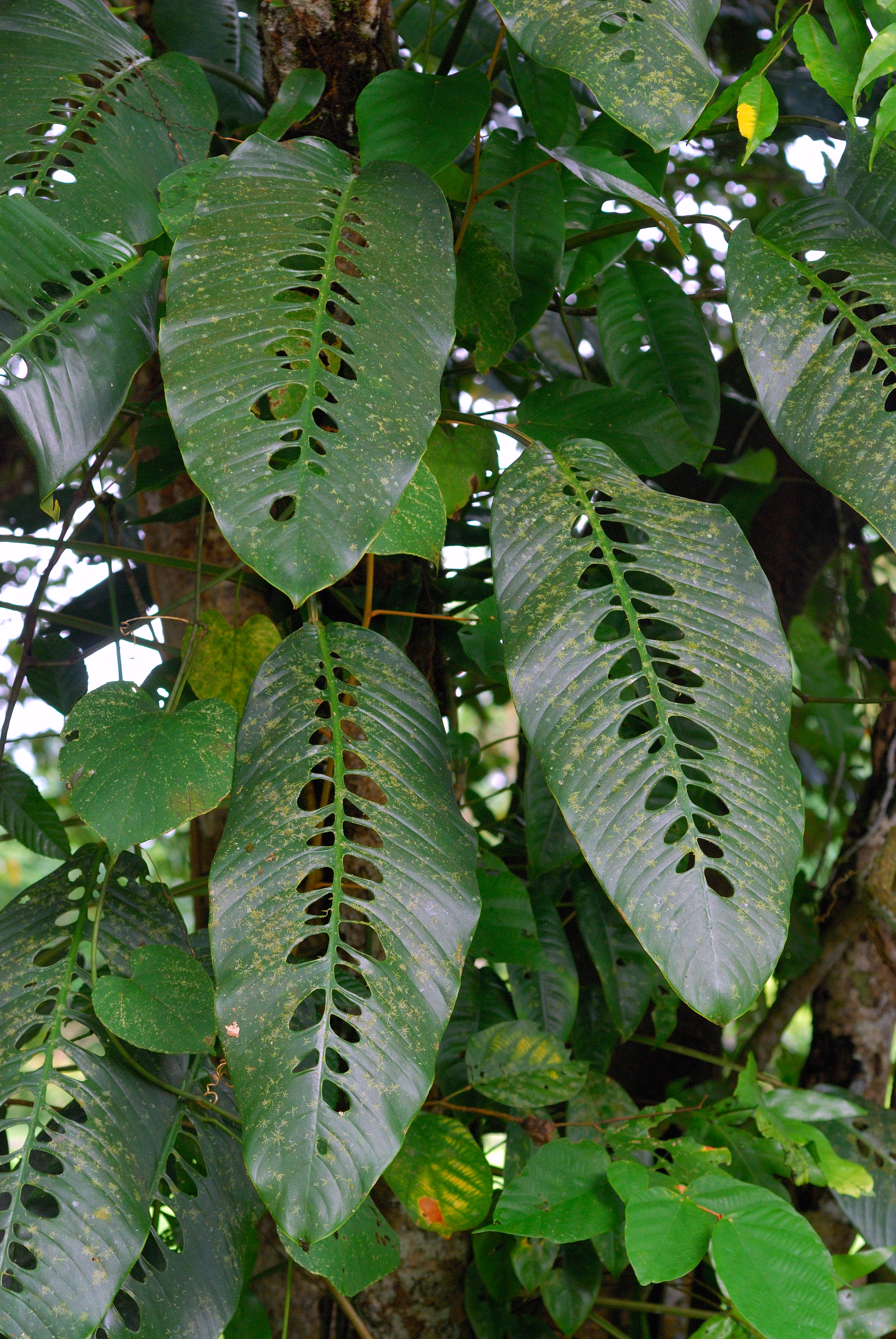 Photographed on the Mulu Park HQ Grounds, Sarawak, Malaysia